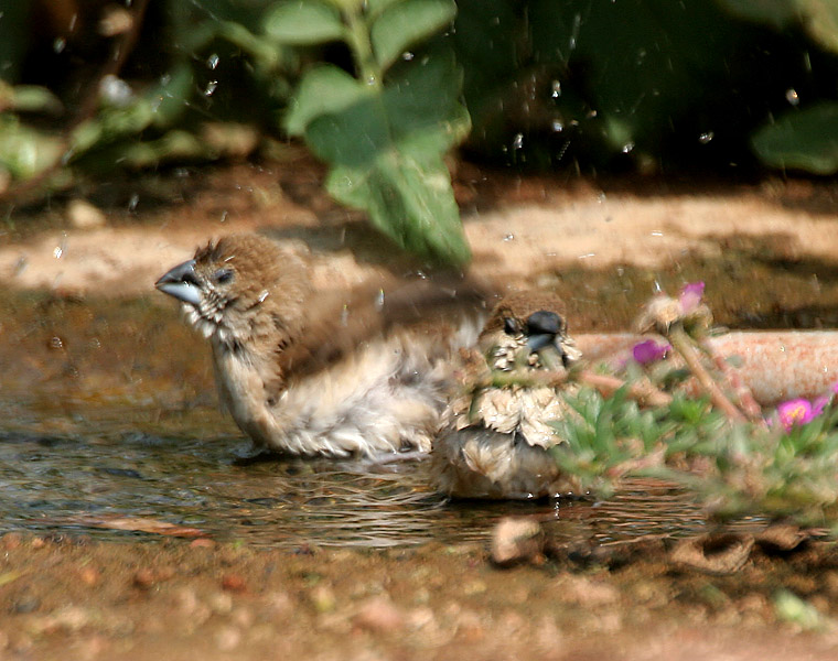 Indian Silverbill or White-throated Munia Lonchura malabarica at Deer Park in Shamirpet, Rangareddy district, Andhra Pradesh, India.